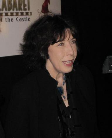 Actress Lily Tomlin.